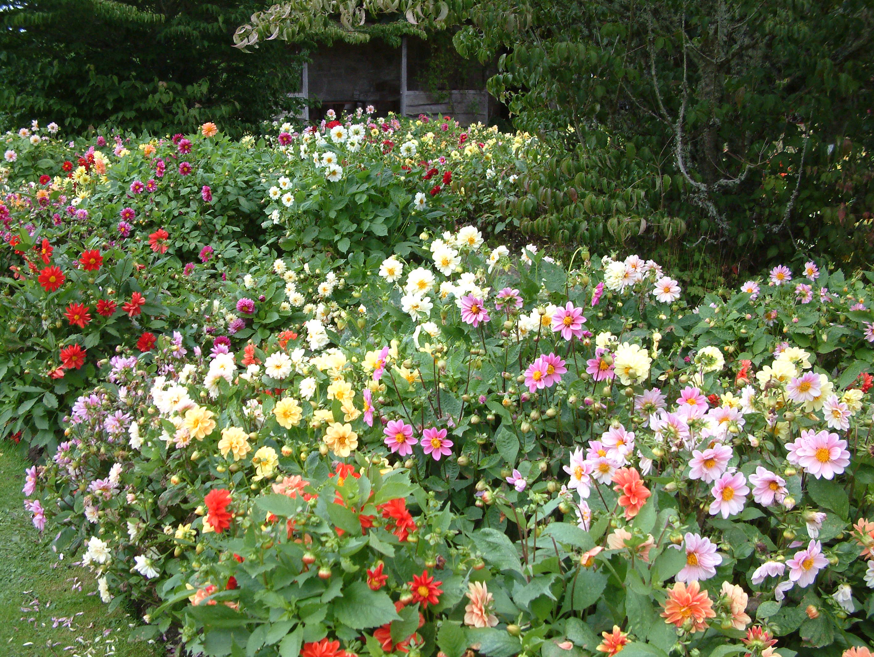 own work, StaraBlazkova 2006 Cawdon Castle garden, Scotland